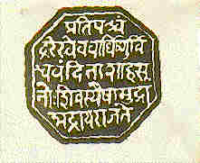 hi:शिवाजी: Currency of Shivaji